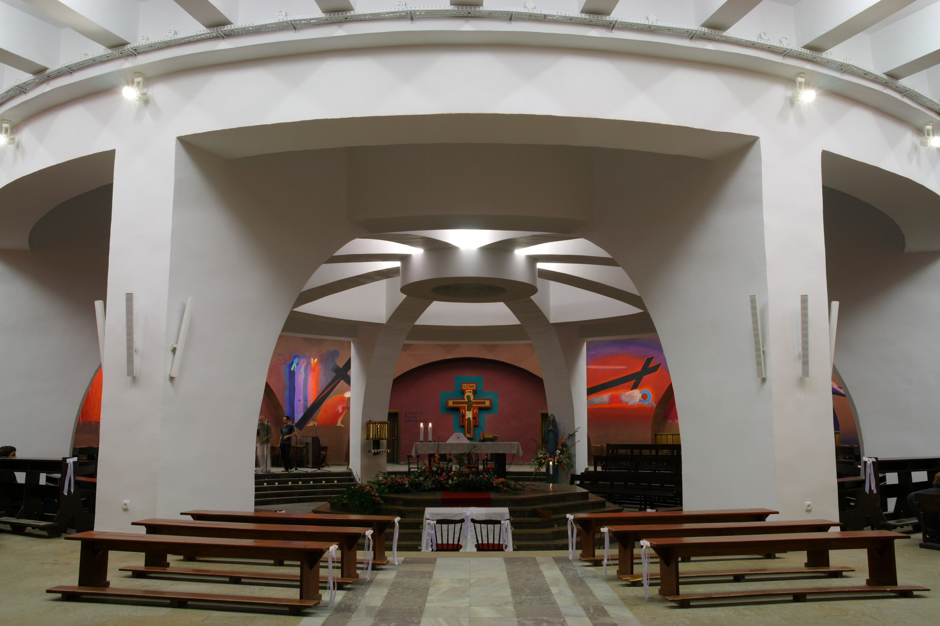 Crypt in cathedral in Katowice.